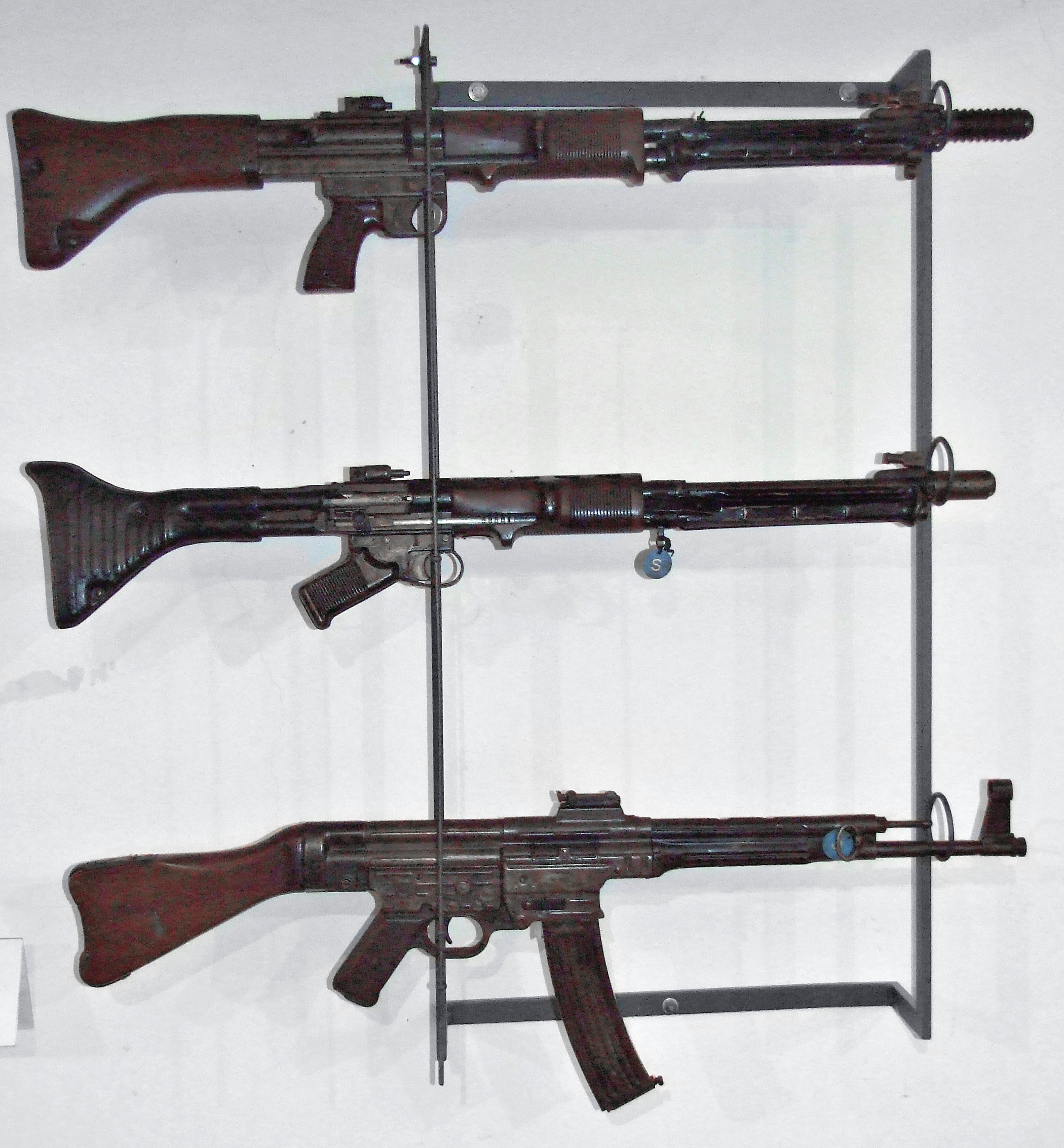 From the top, a late-model FG 42 Ausführung G/Type III, an early-model FG 42 Ausführung E/Type I and an StG 44, taken inside Forte di San Leo. The FG 42's have their iron sight lines folded down.